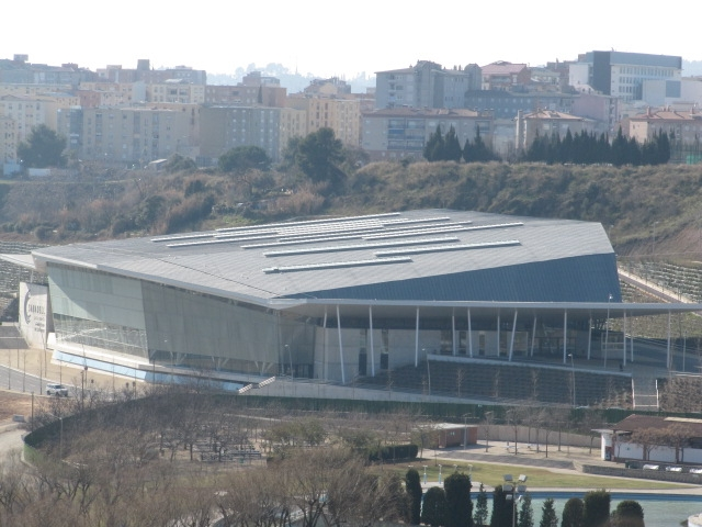 Pista Coberta d'Atletisme de Catalunya (Sabadell, Vallès Occidental, Catalonia).